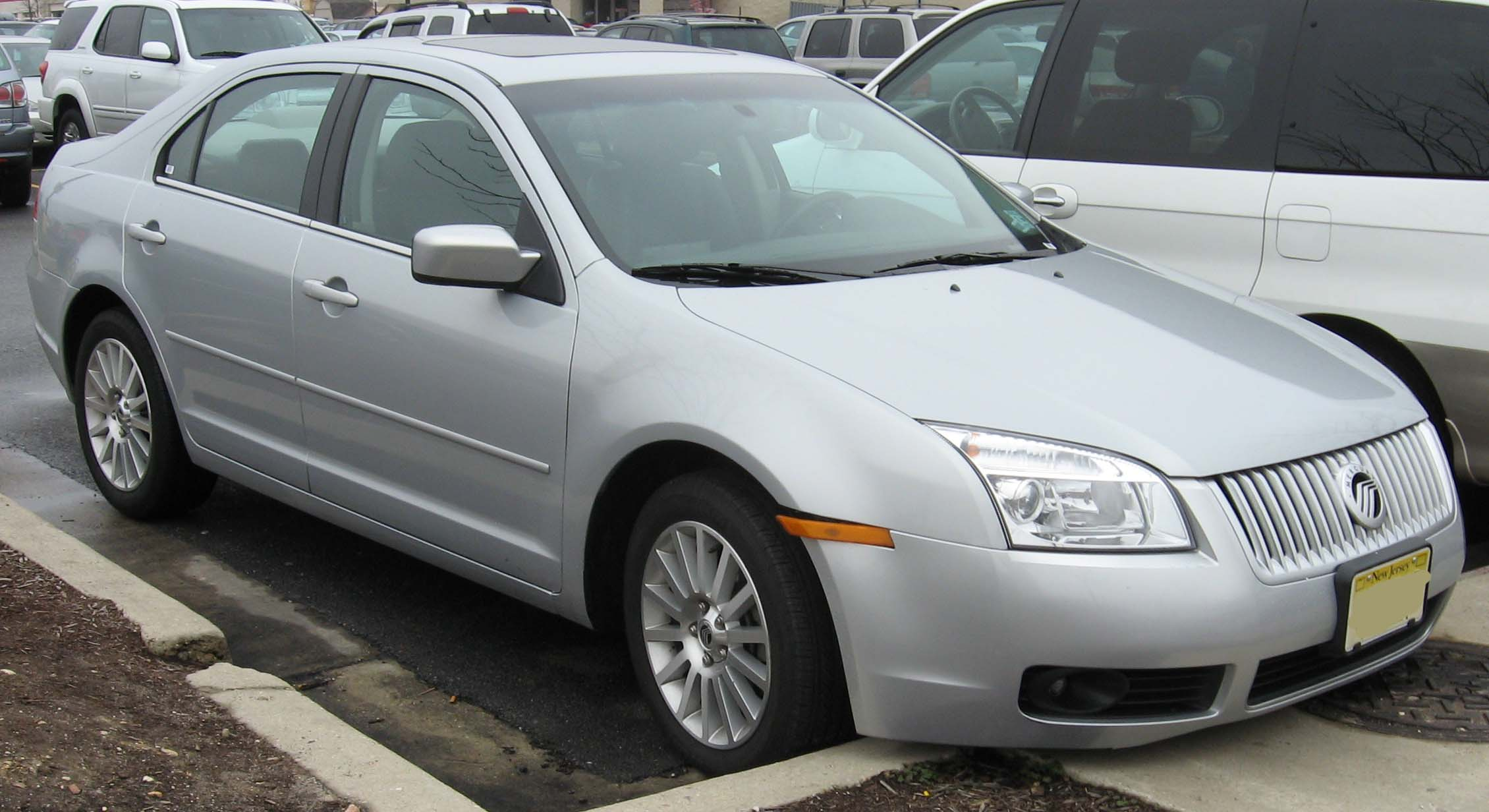 2006-2007 Mercury Milan photographed in USA.